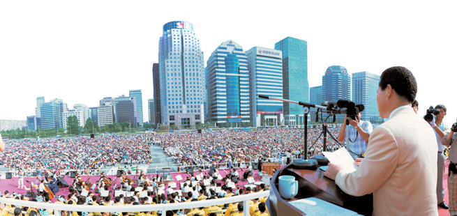 Rev. Dr. Jaerock Lee, as the administrative president, makes the progress report in Peaceful Re-unification Jublilee Crusade celebrating 50th anniversary of Korea's independence in Yeoido Square, Seoul, South Korea